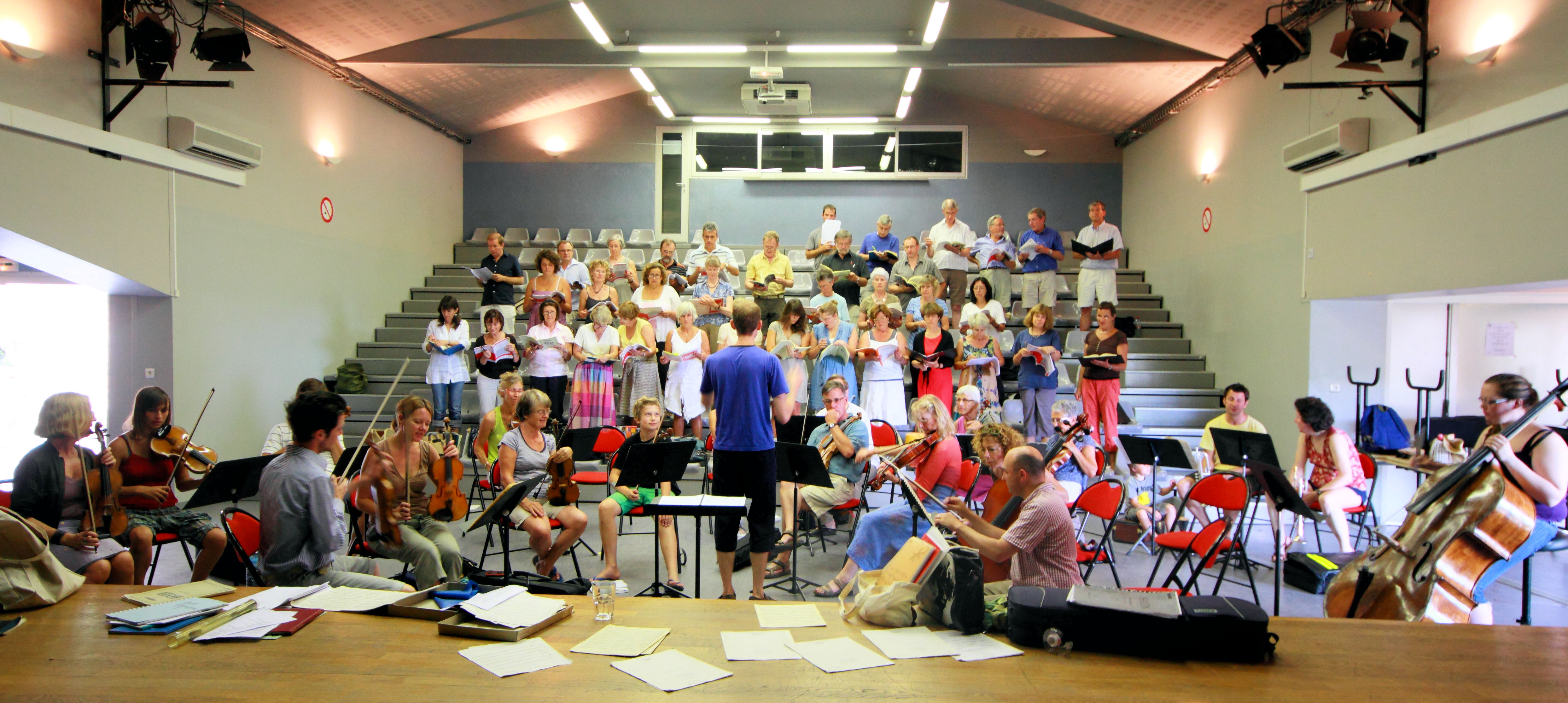 Choir & orchestra rehearsing under conductor Tom Seligman, musique-Cordiale Festival, 2010